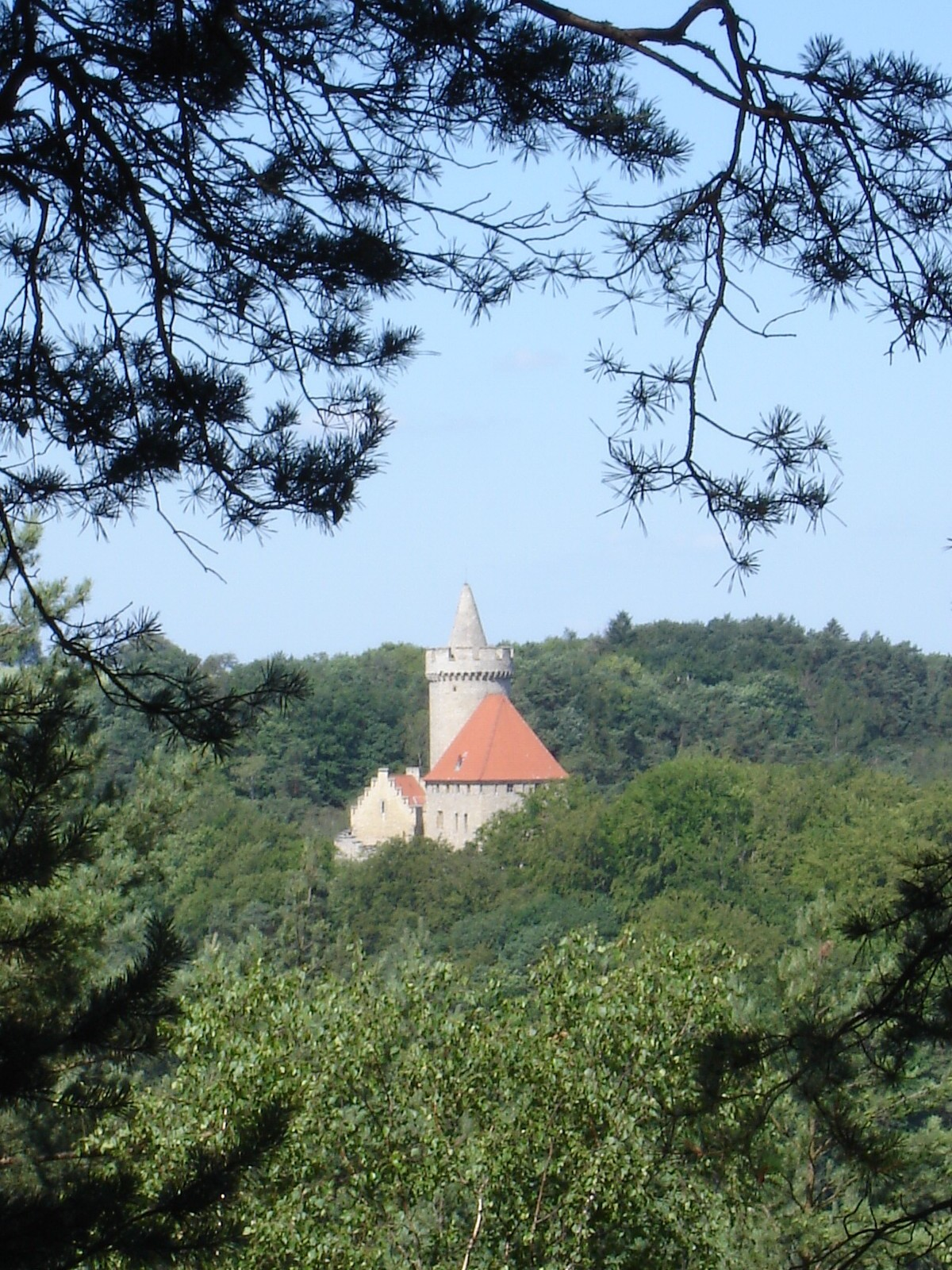 castle Kokořín, czech republic